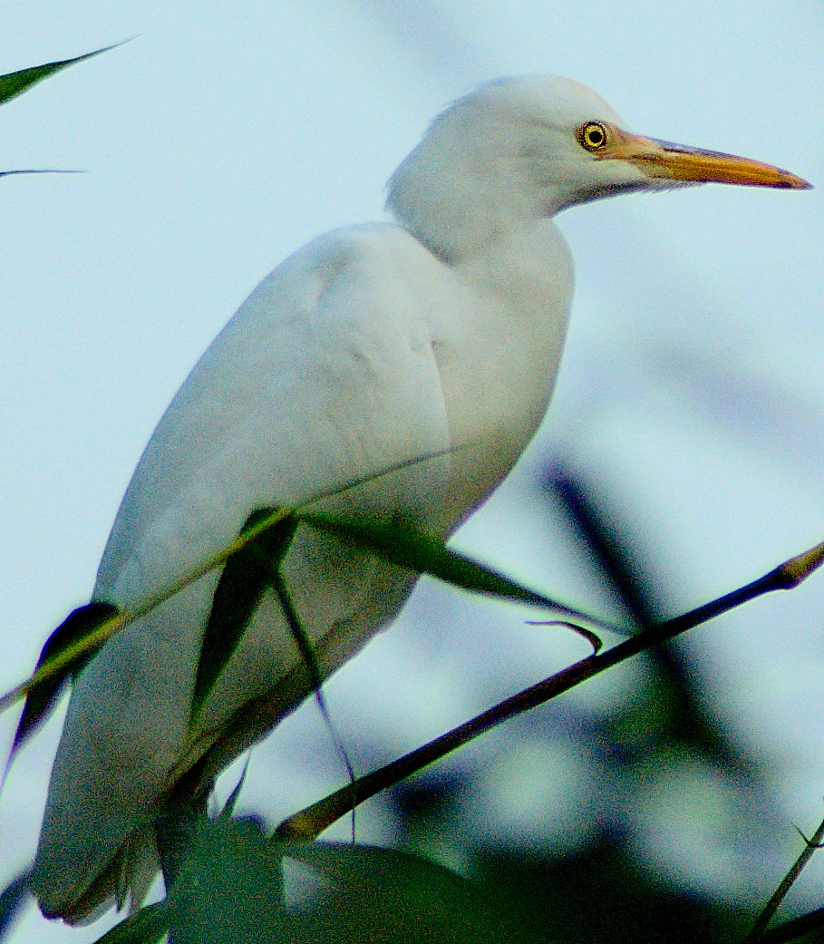 Cattle Egert in Manas National Park, Assam, India